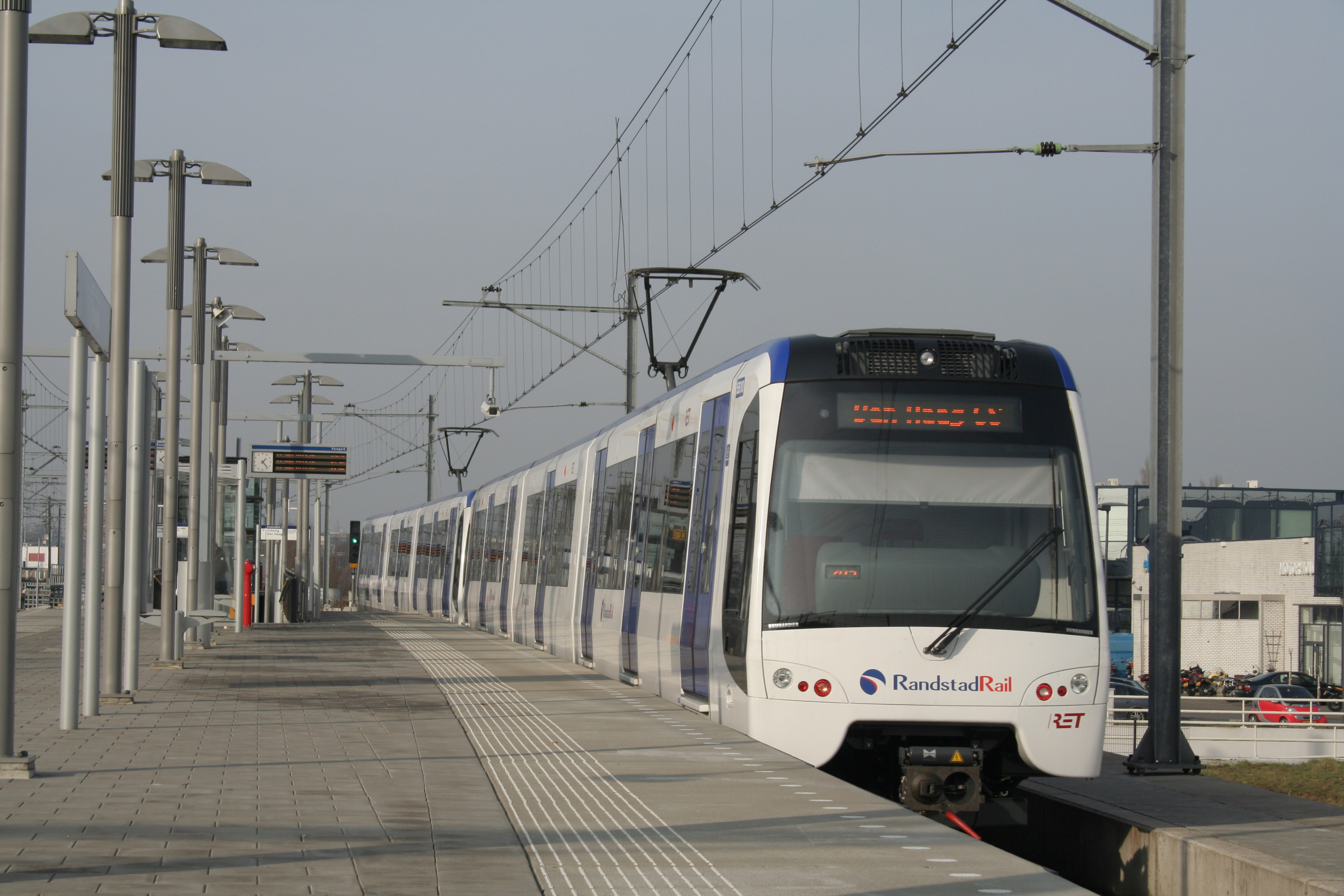 Randstadrail Nootdorp